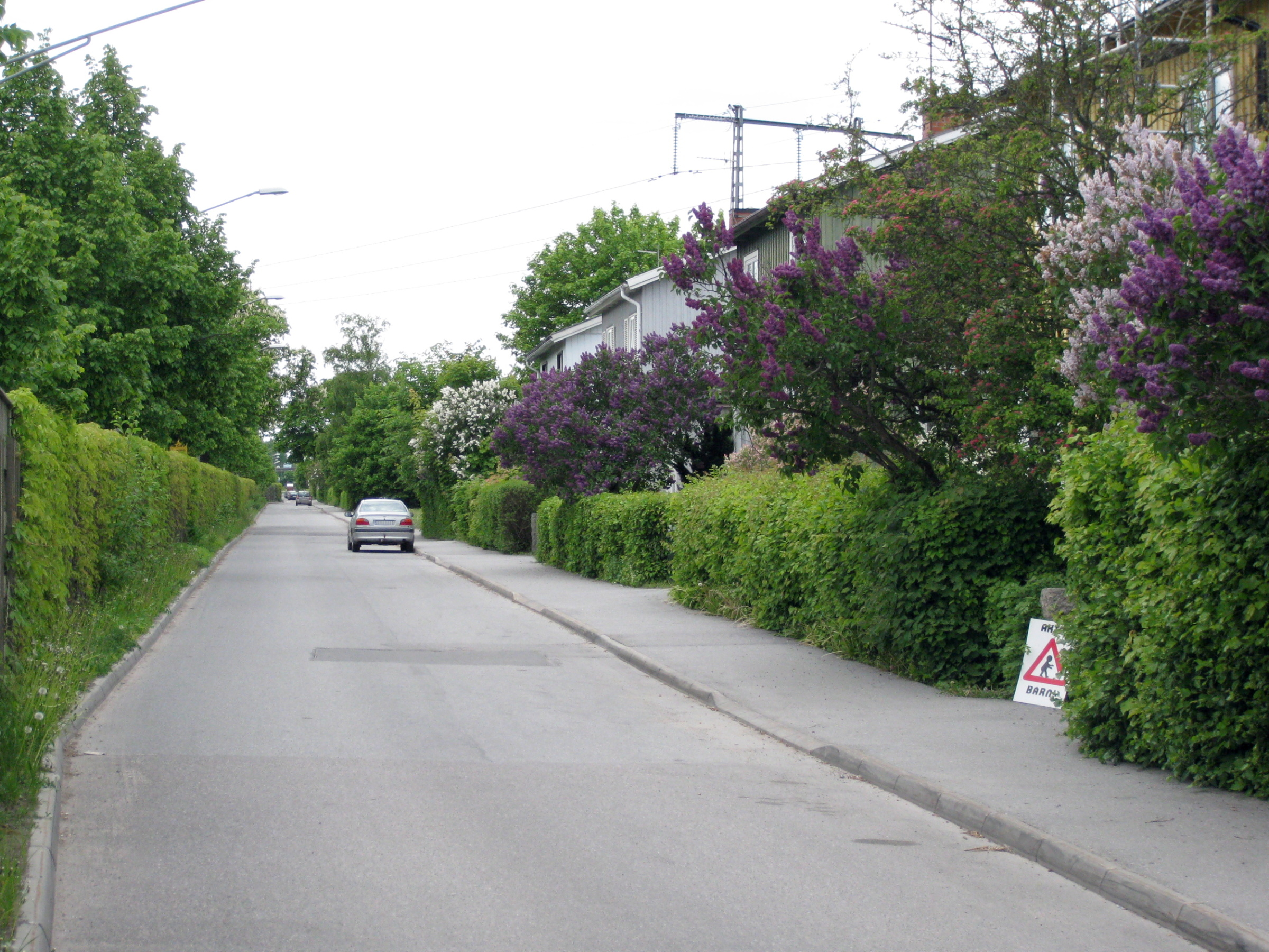 Houses by Drottningholmsvägen, Nockebyhov, Bromma, western Stockholm, Sweden